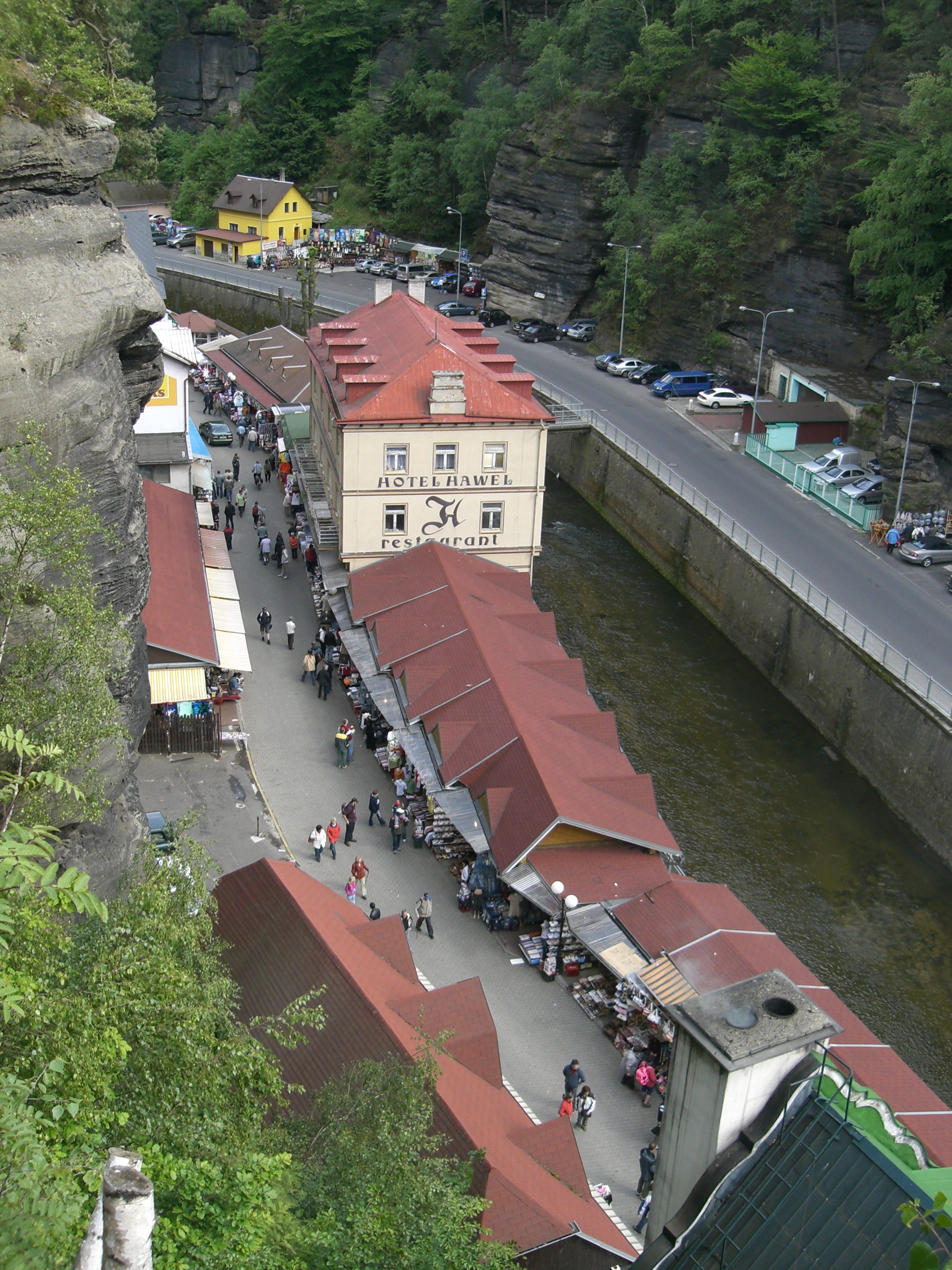 Hřensko village, Czech Republic.